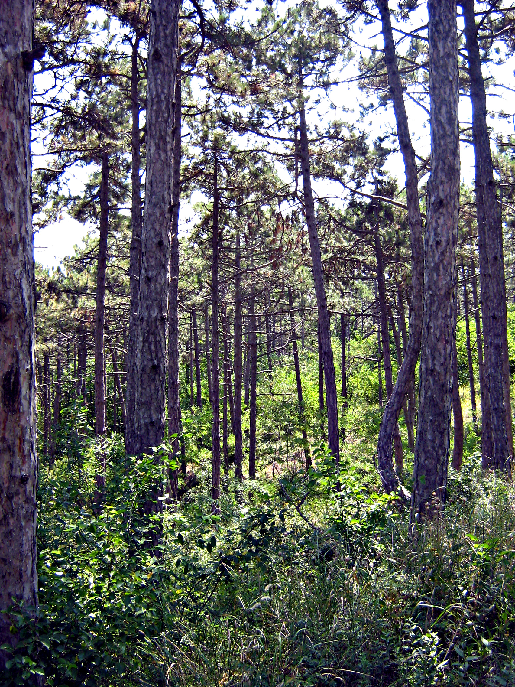 Crimean mountains. Tepe-Oba. Forest. Theodosia. 2011 year.